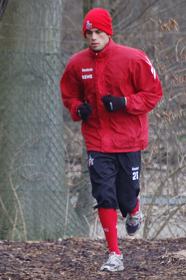 German footballer Taner Yalcin.